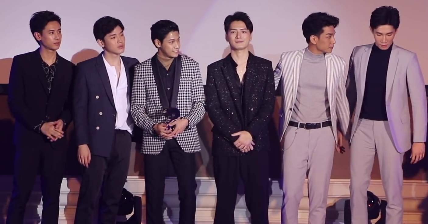 Cast of SOTUS S The Series at attitude awards